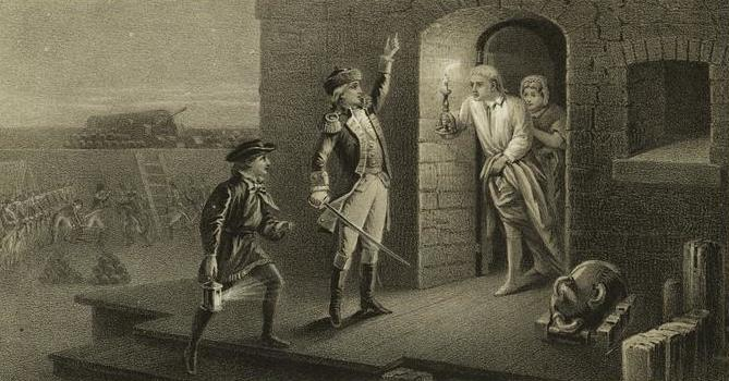 1875 engraving depicting the capture of Fort Ticonderoga by Ethan Allen on May 10, 1775